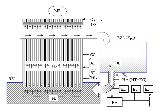 Molecular power 26. Molecular pumped storage hydroelectrical power system based on the positive thermodynamic Gibbs p-potential